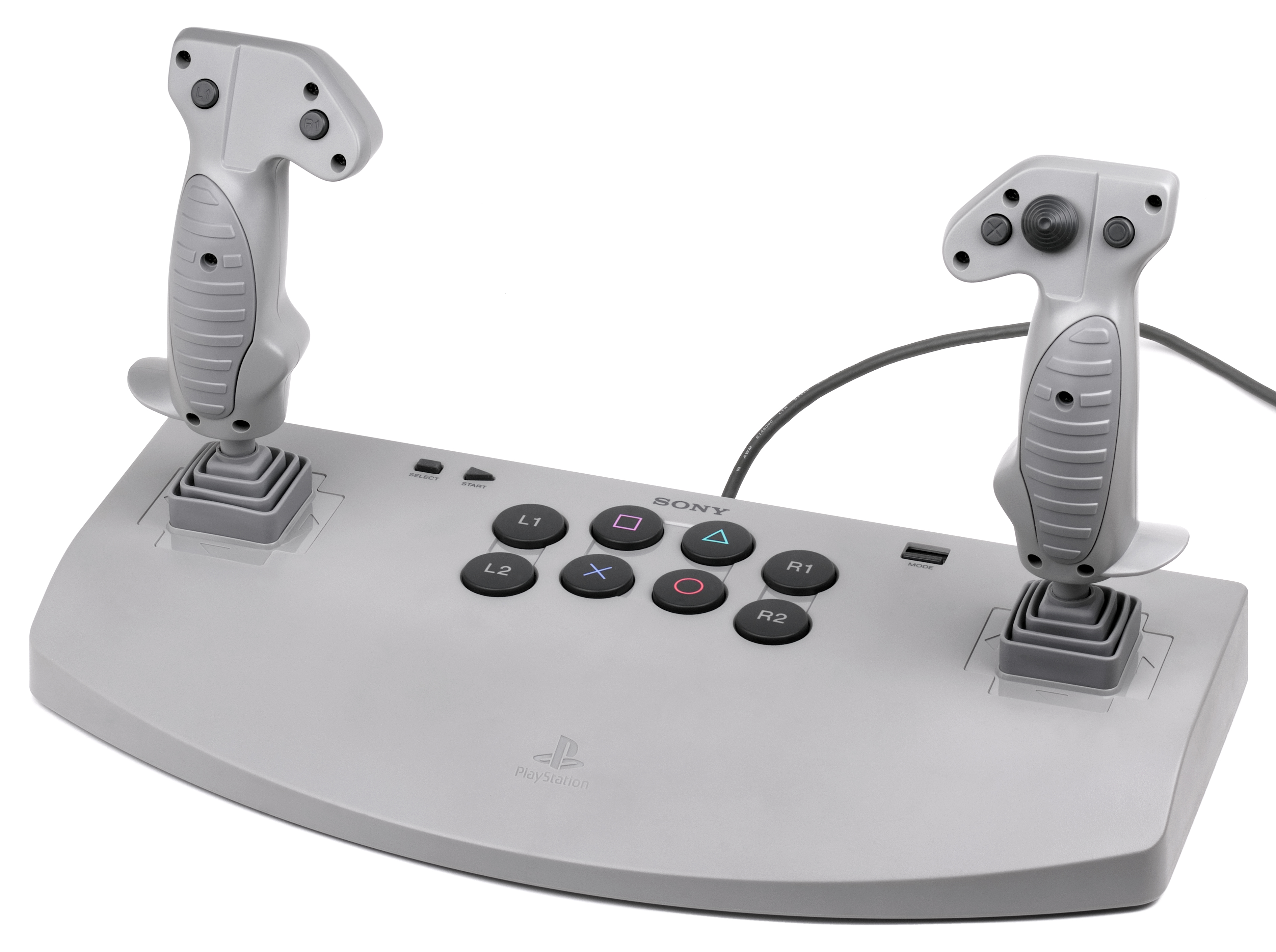 The somewhat rare PlayStation Analog Joystick (SCPH-1110).